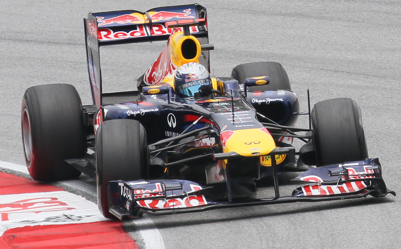 Formula One 2011 Rd.2 Malaysian GP: Sebastian Vettel (Red Bull) during the third practice session on Saturday.